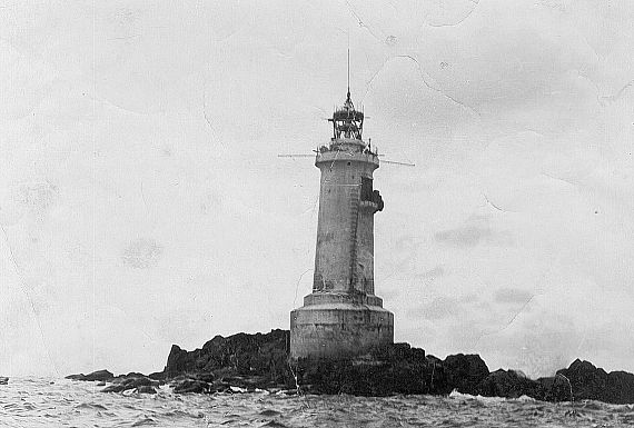 Lighthouse on Kamen Opasnosti near Sakhalin